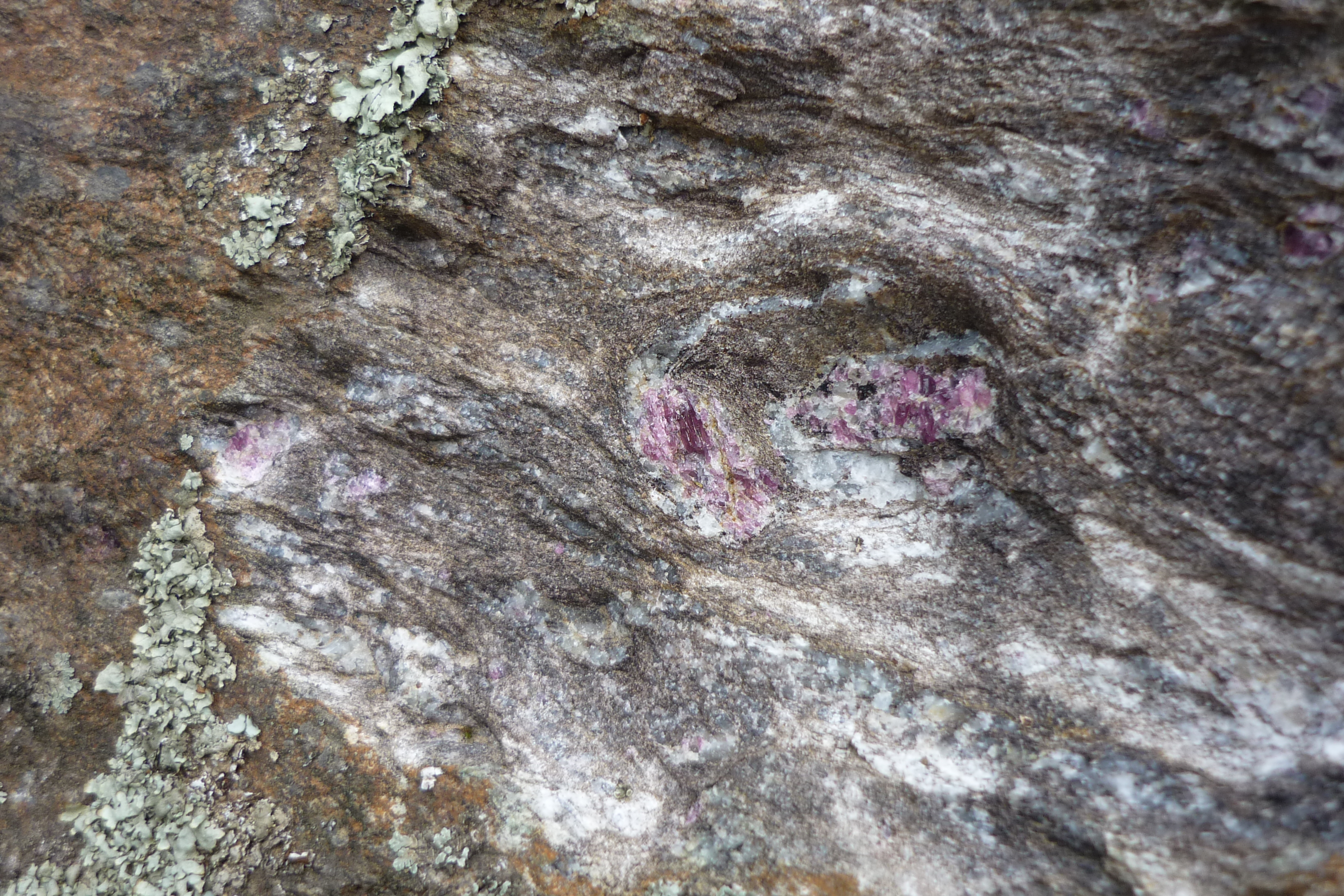 Almandine in natural monument Starkočský lom in Kutná Hora District, Czech Republic